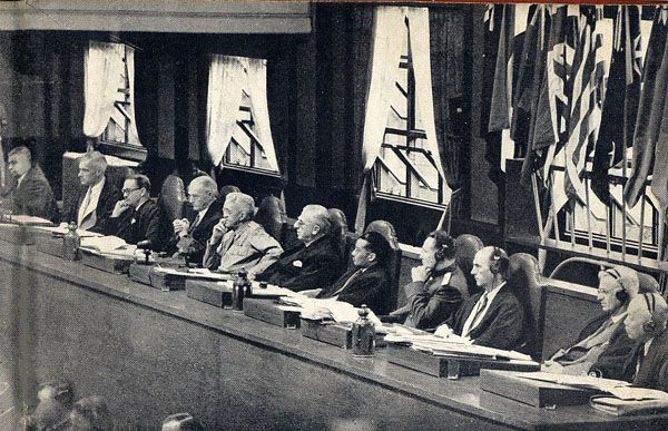 The judges at the International Military Tribunal for the Far East Ichigaya Court